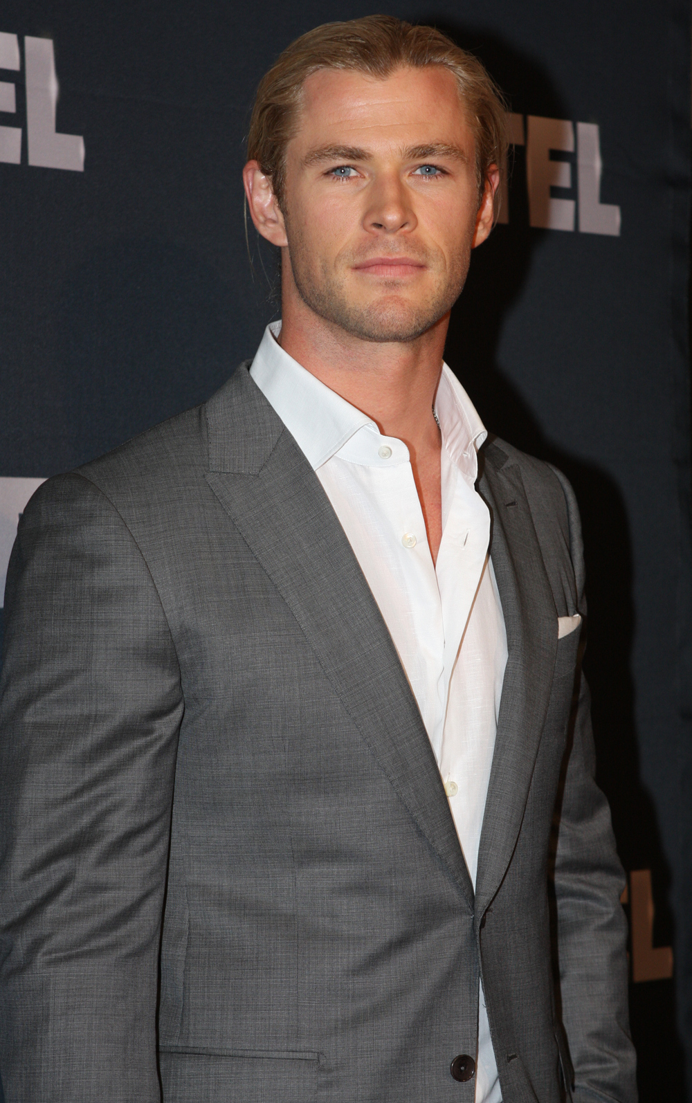 Chris Hemsworth at the Foxtel 2013 Launch Event, Fox Studios Australia, Moore Park, Sydney, Australia.